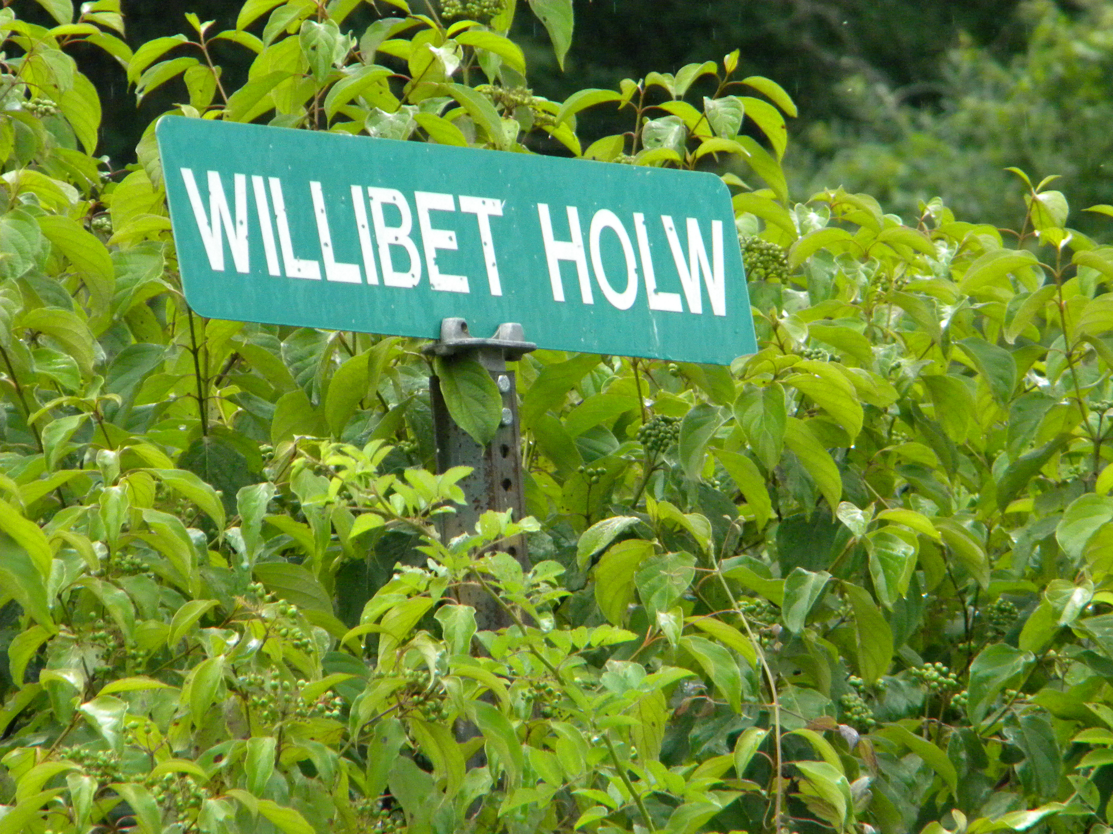 Willibet WV street sign off of Jonben/Fireco Rd in Raleigh County WV